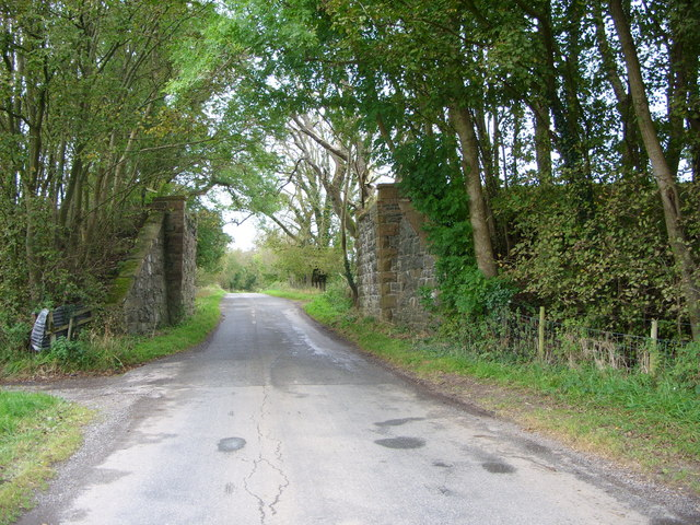 Dismantled Railway Bridge at Baldoon